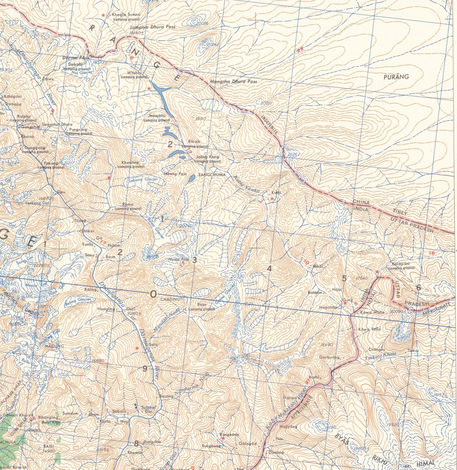 This map is a cropped version of File:Map India and Pakistan 1-250,000 Tile NH 44-6 Nanda Devi.jpg, showing the detail of Kali river sources: Kalapani and Kuthi Yankti